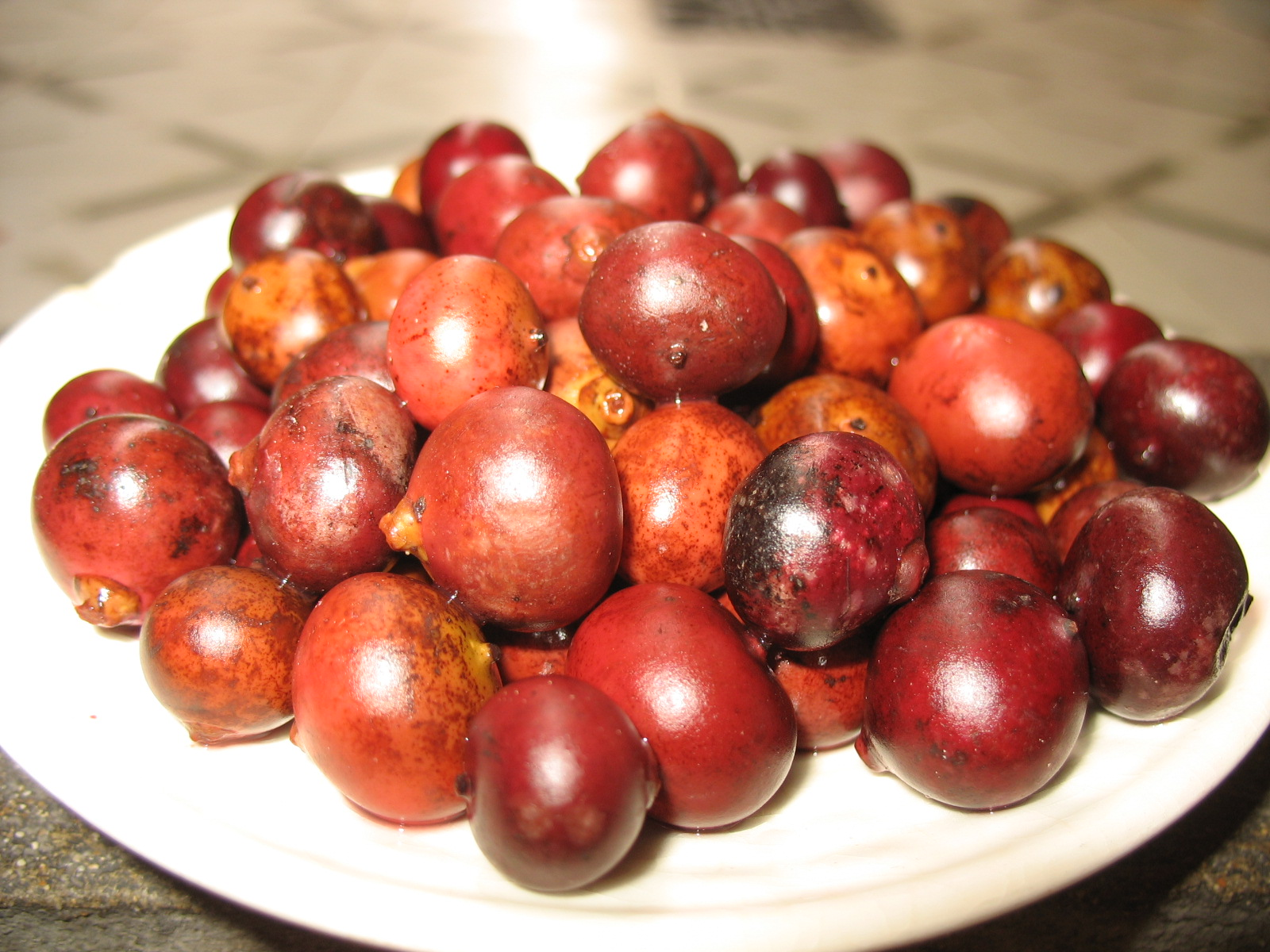 Corozos